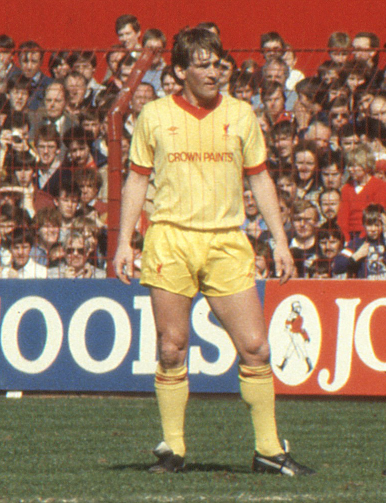 Stoke City vs Liverpool around 1983 or 1984. Looks like a booking for Kenny Dalglish.